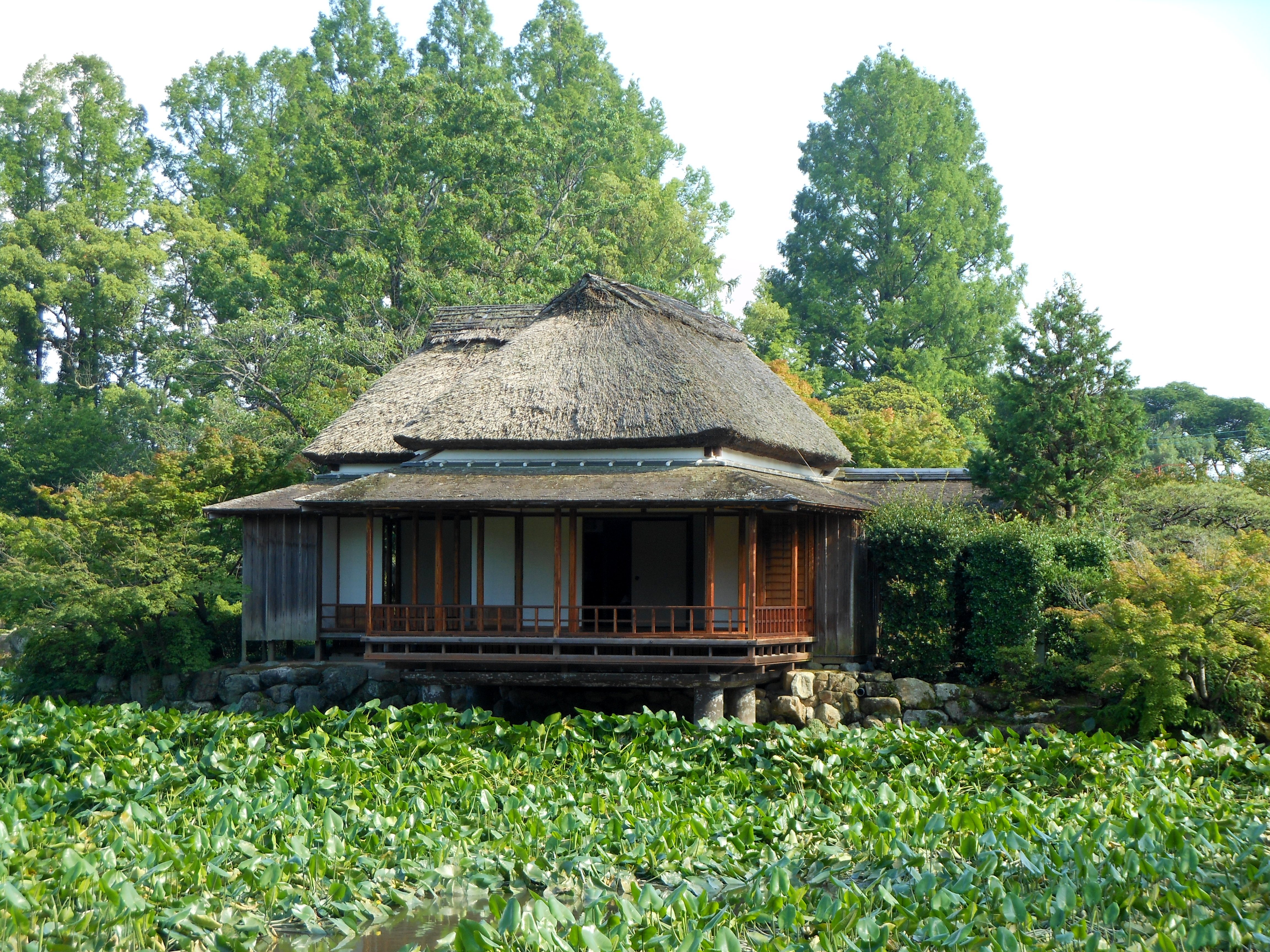 Kakurintei Tea House, a restored Japanese tea house of Lord Nabeshima Naomasa, in Kōno Park.